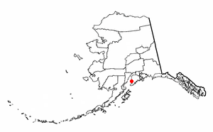 Adapted from Wikipedia's AK borough maps by Seth Ilys.